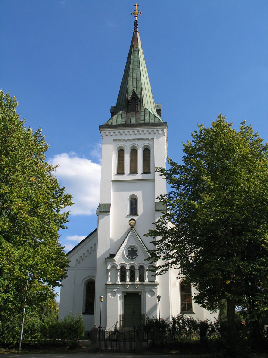 Malexanders Church.Tower Building.